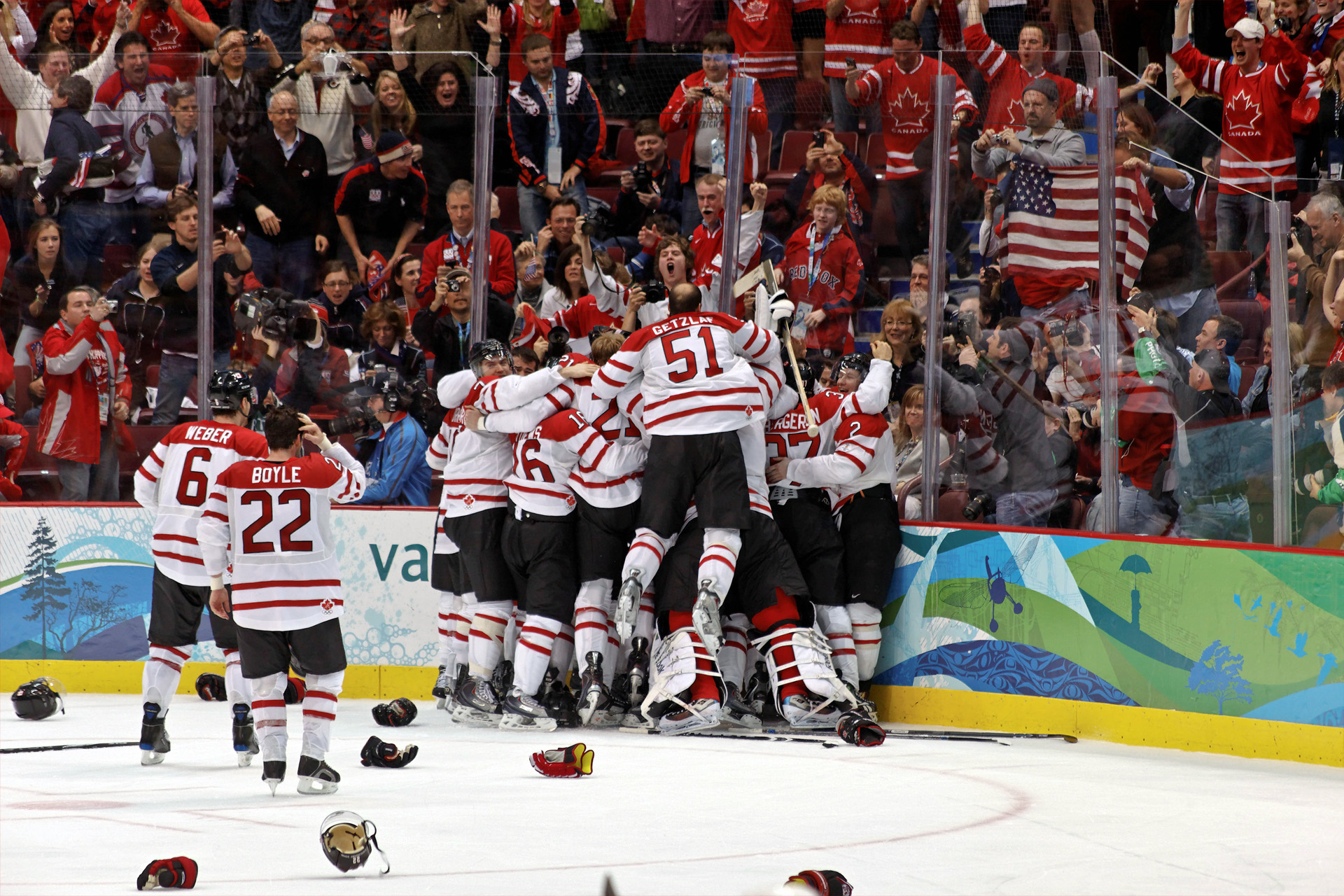 The Canadian men's ice hockey team celebrates winning the gold medal in overtime over the United States during the 2010 Winter Olympics